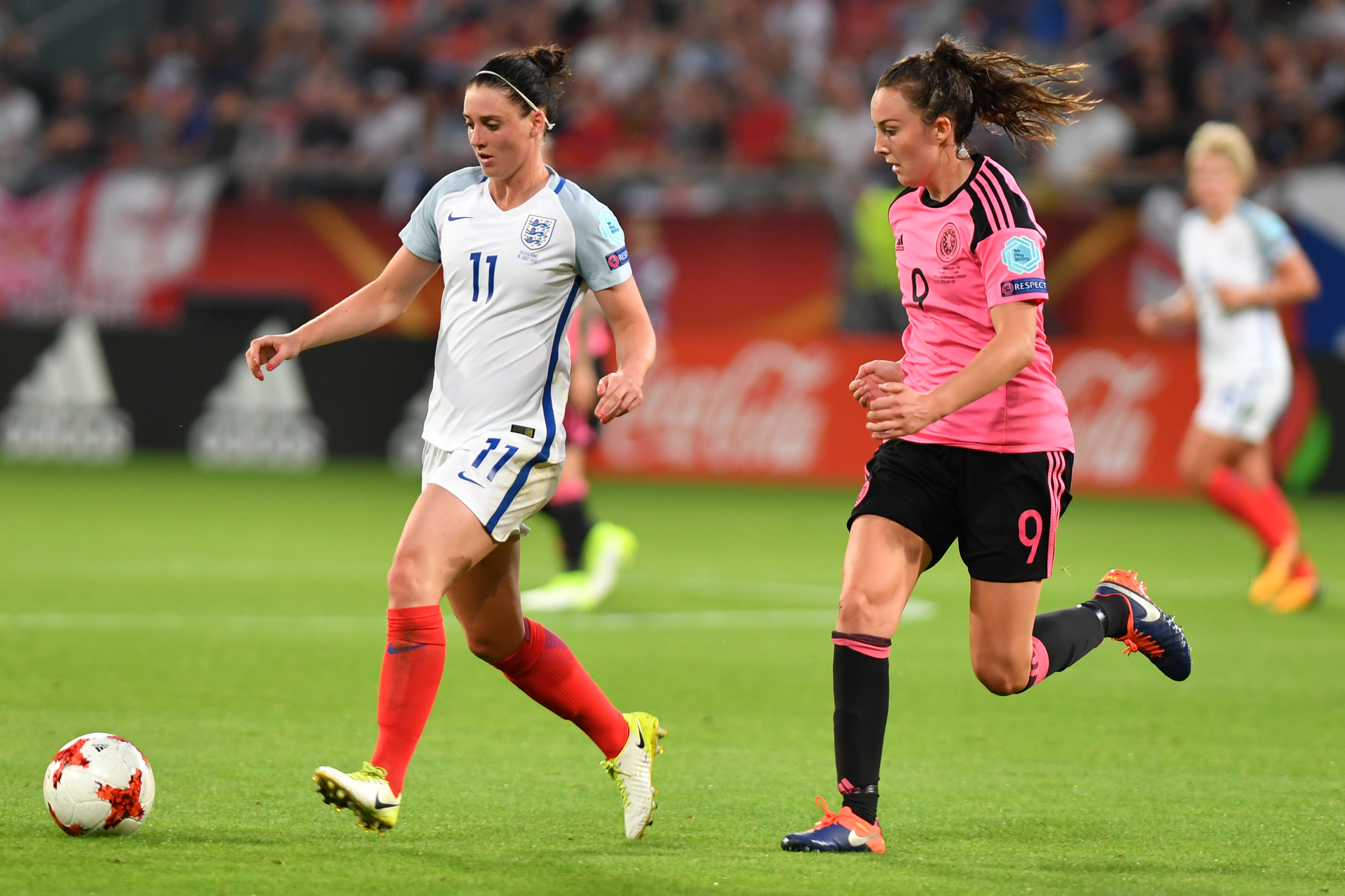 Utrecht, Netherlands, sports, soccer, UEFA Women's Euro 2017 - England vs Scotland. Image shows